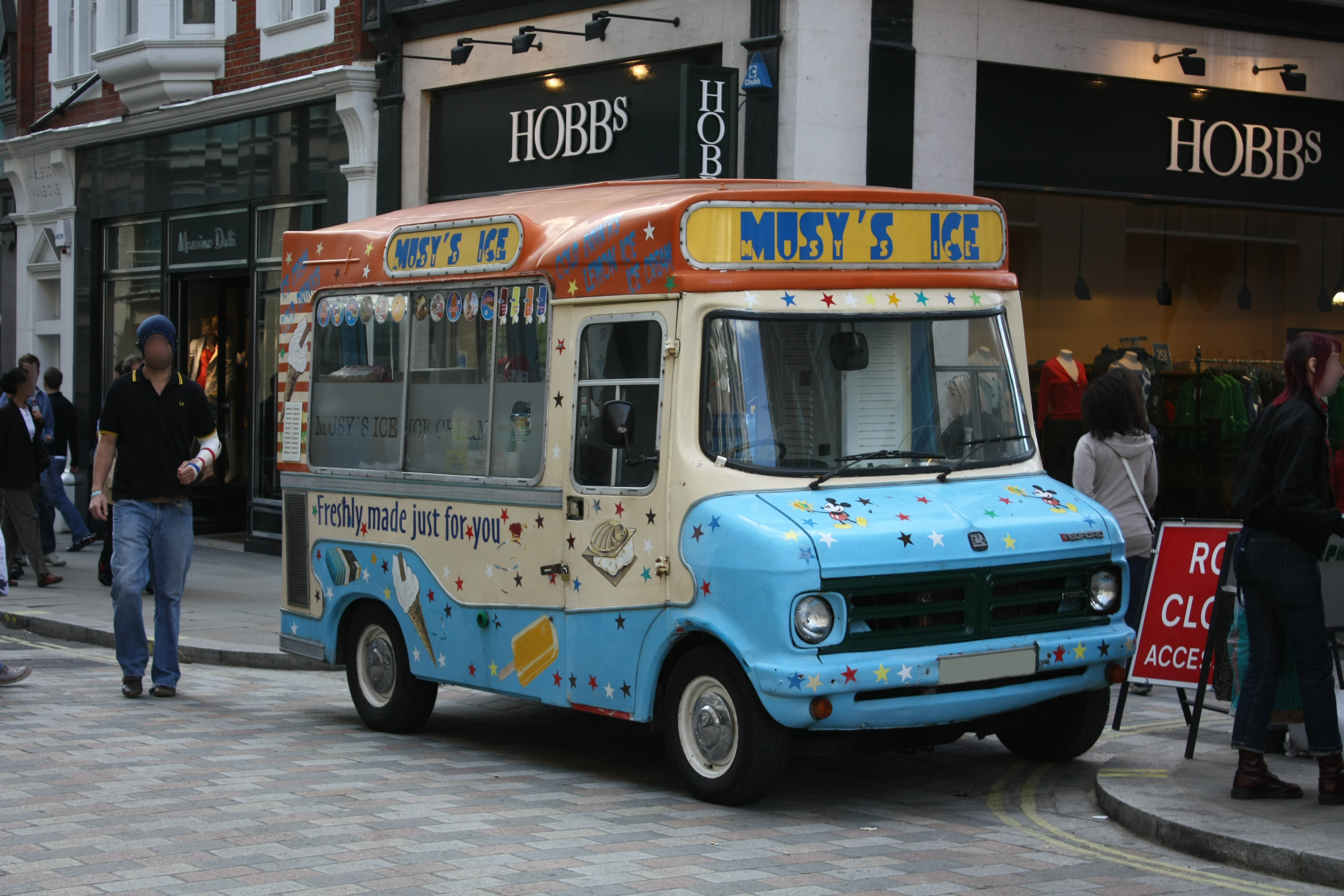 Bedford CF Ice Cream Van